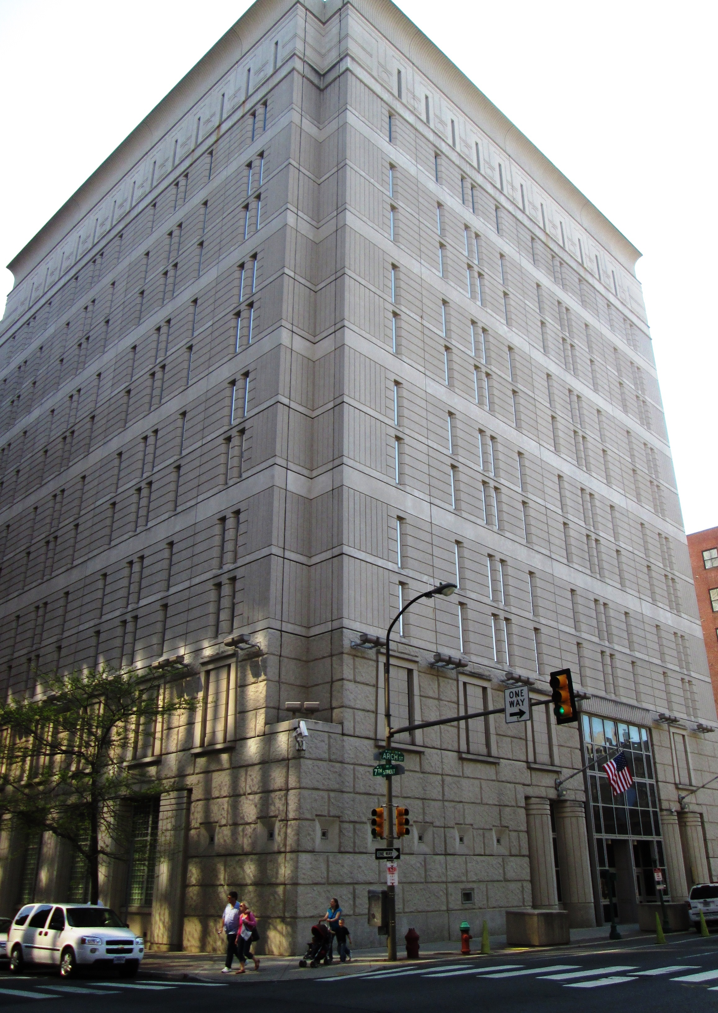 The Federal Detention Center (FDC Philadelphia) at 700 Arch Street at the corner of N. 7th Street is a United States Federal prison in Pennsylvania which holds male and female inmates prior to or during court proceedings, as well as inmates serving brief sentences. It is operated by the Federal Bureau of Prisons, a division of the United States Department of Justice.